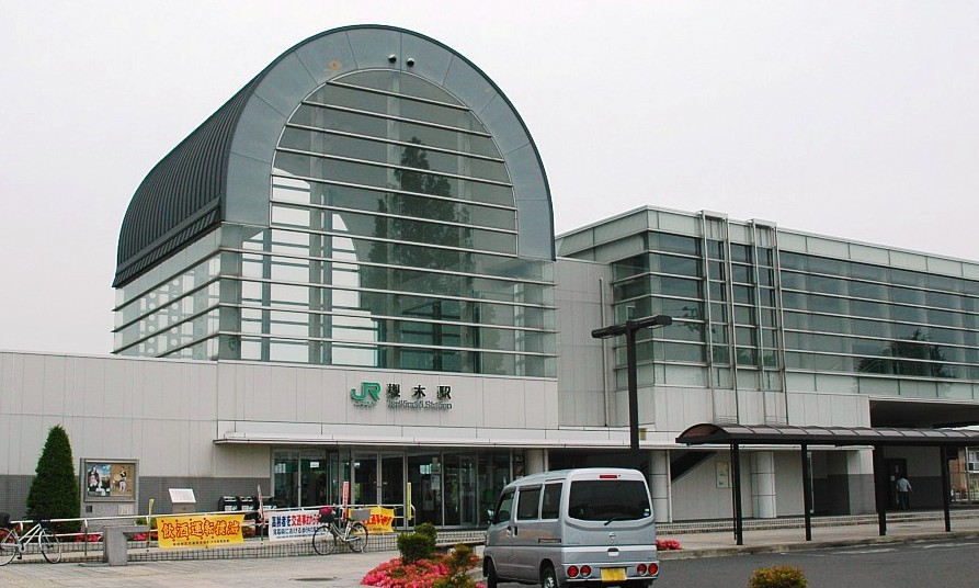 Tsukinoki Station, East Japan Railway as well as Abukuma Express Line, Miyagi, Japan